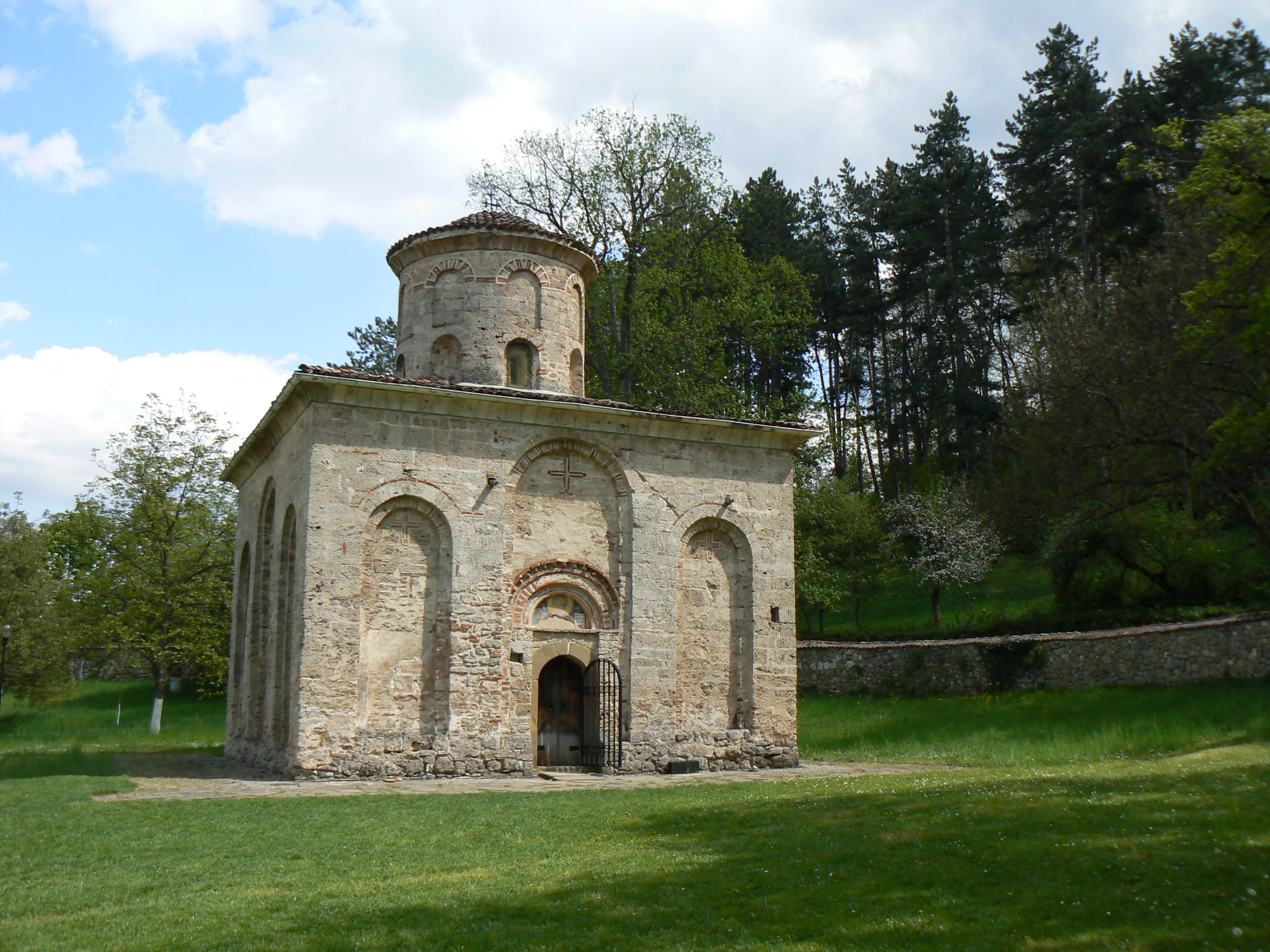 The church of Zemen Monastery, Bulgaria